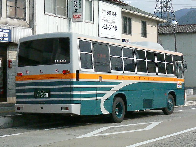 Company:Blueline Kotsu Use:transit bus Car license:山口200 か・330 Belongs to:Toyota depot Chassis manufacturer:Hino Motors Coachbuilder:Hino Body Place:in Mine City, Yamaguchi, Japan